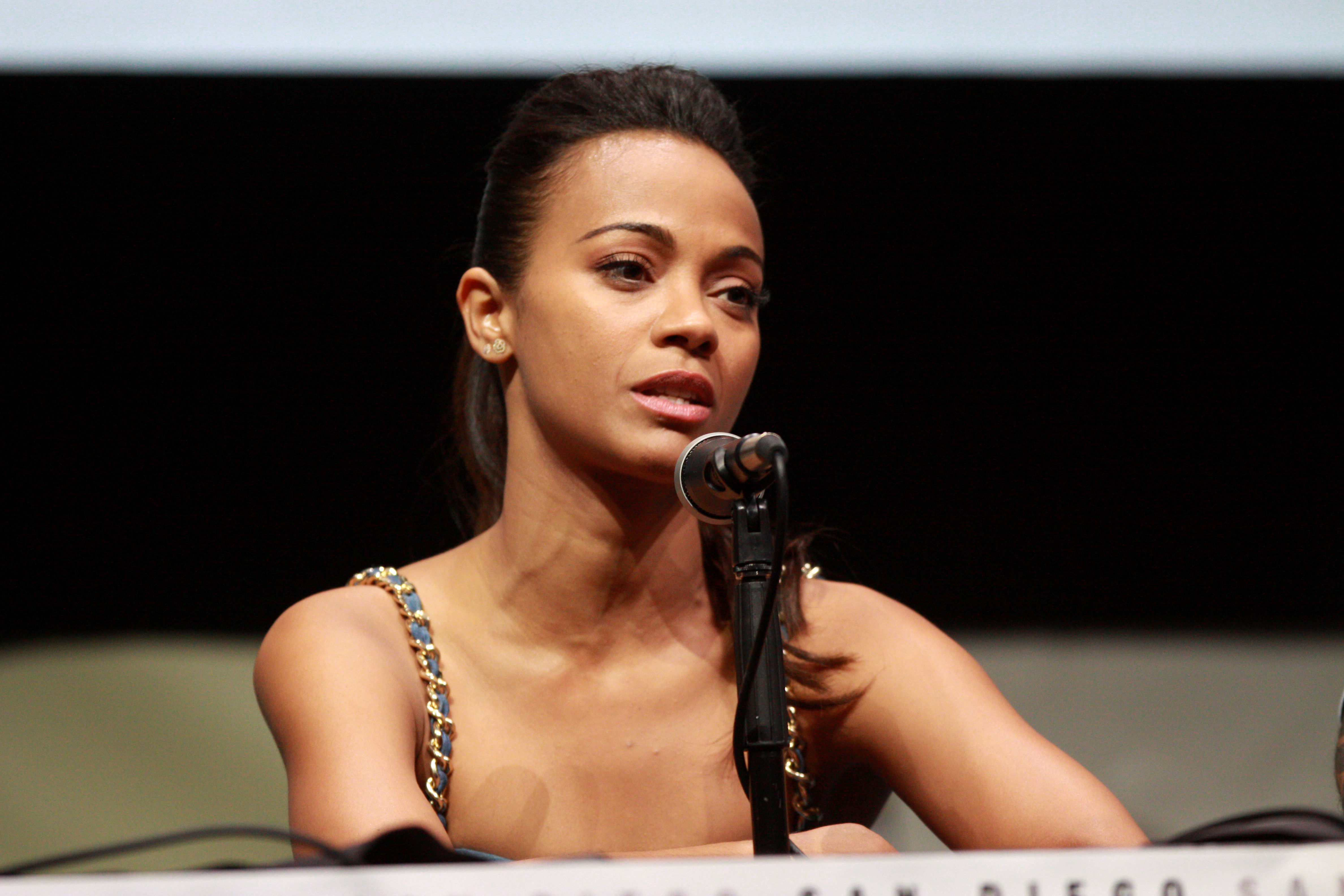 Zoe Saldana speaking at the 2013 San Diego Comic Con International, for "Guardians of the Galaxy", at the San Diego Convention Center in San Diego, California.